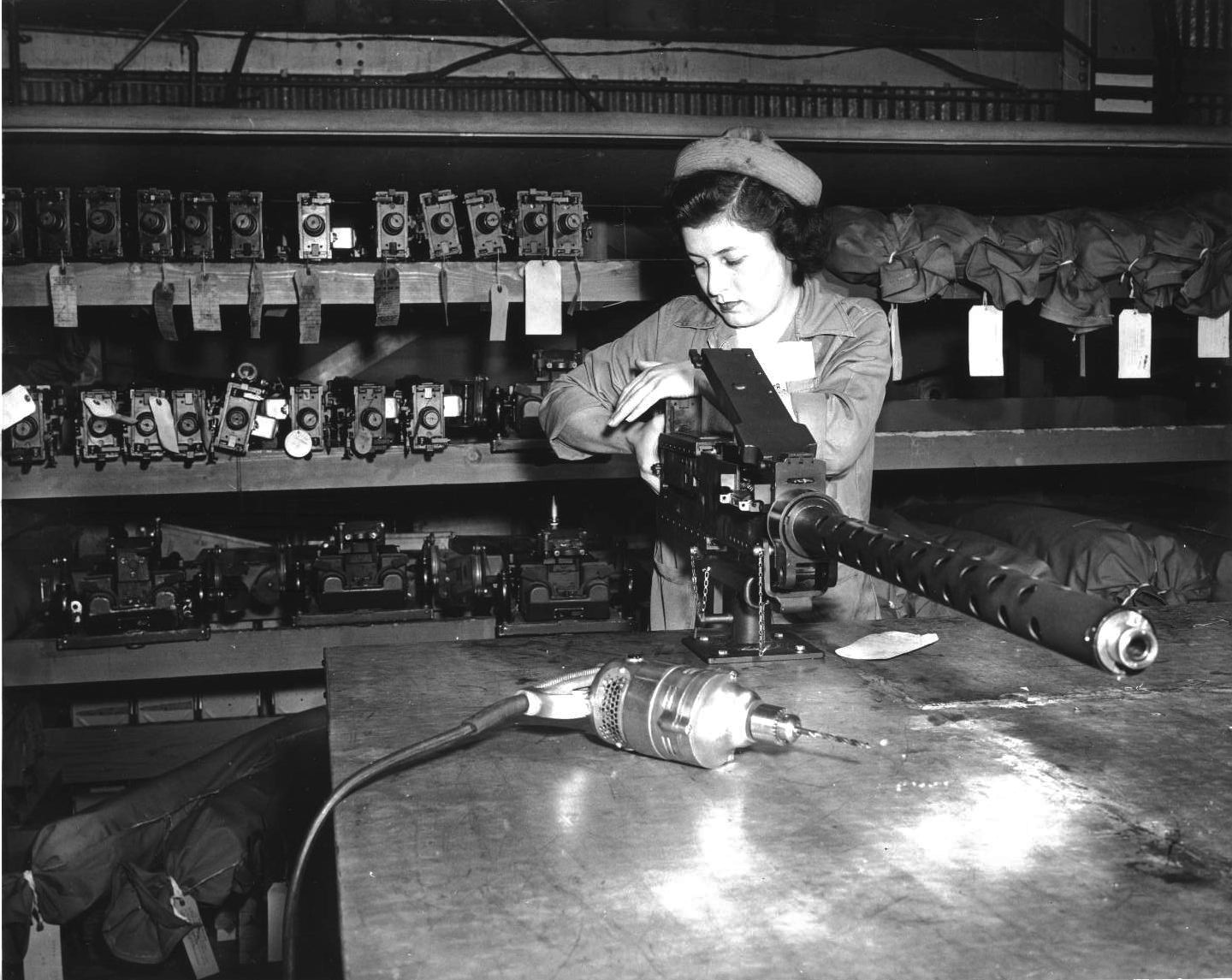 Private Marion Pillsbury assembles a .50 caliber machine gun at Marine Corps Base San Diego. From the Marine Corps Women's Reserve Collection (COLL/981) at the Marine Corps Archives & Special Collections. OFFICIAL USMC PHOTOGRAPH